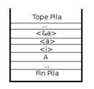 Stack_character